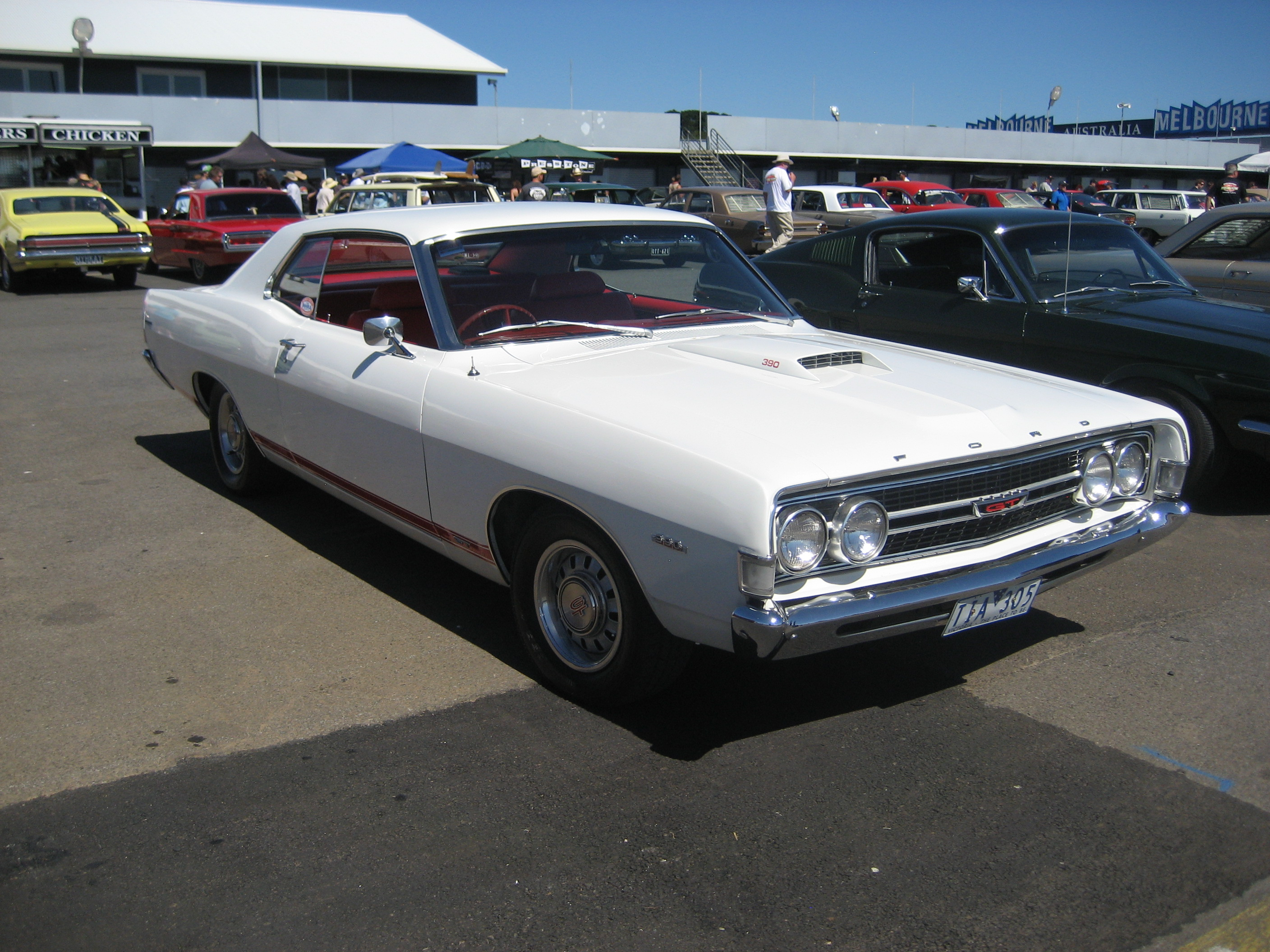 Built from 1968-76 the Torino was the top of the line Fairlane up to 1970. Available in Sedan, Hardtop, Fastback, Convertible & Wagon. Engines; 200 6 cyl, 302, 390 & 428 V8s